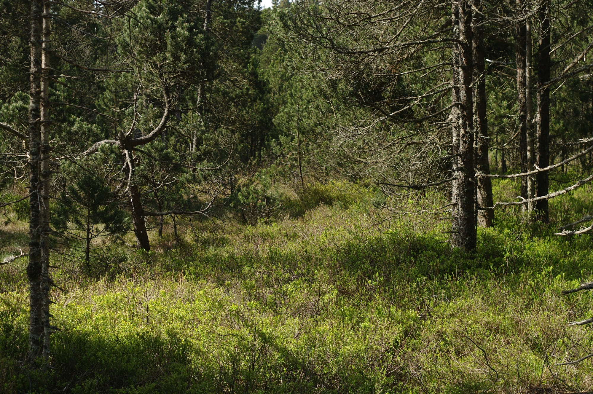 Hill Moor of Horbach